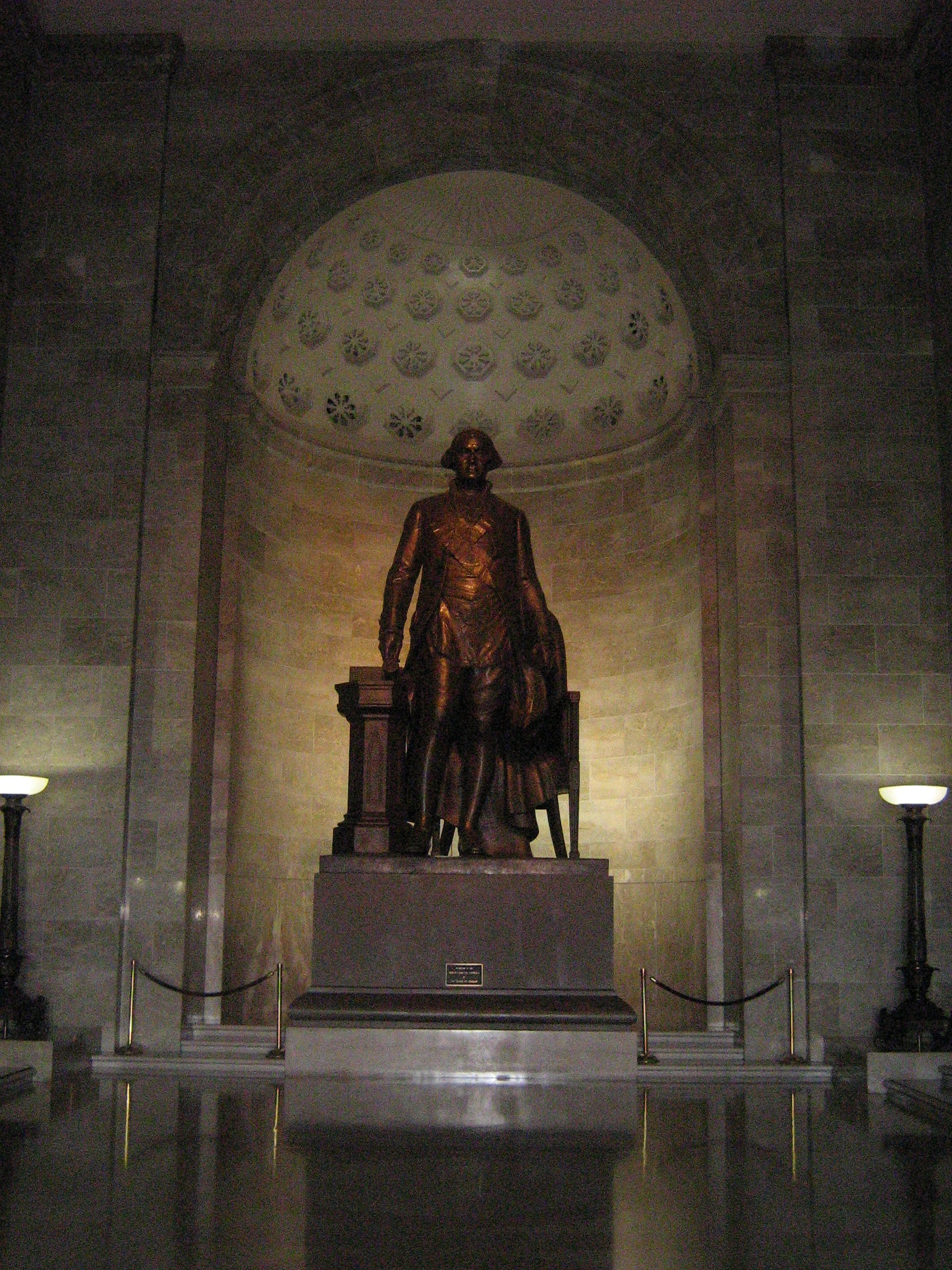 George Washington Masonic National Memorial